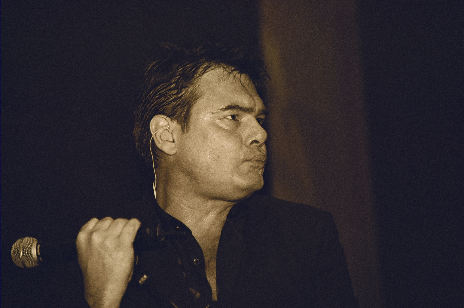 Depicted person: Marian Gold